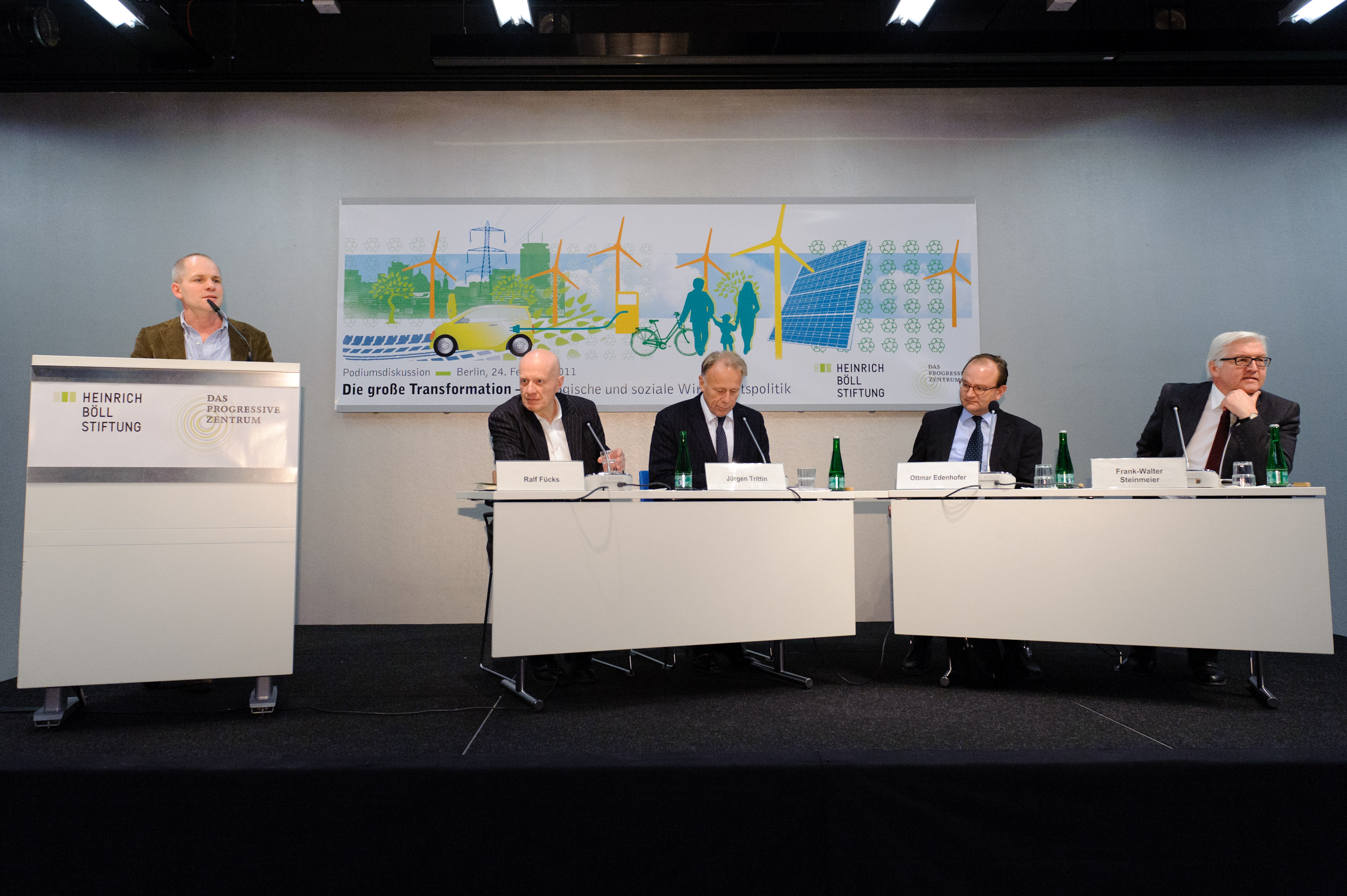 Conference: The Great Transformation